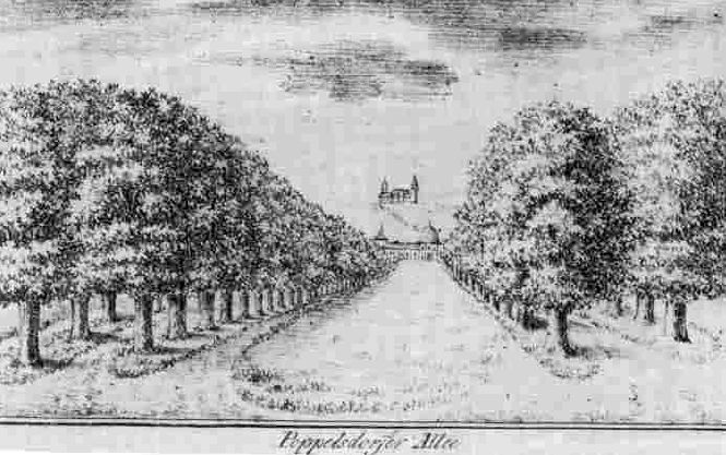 Poppelsdorfer Allee in Bonn, Germany, lithography from around 1820